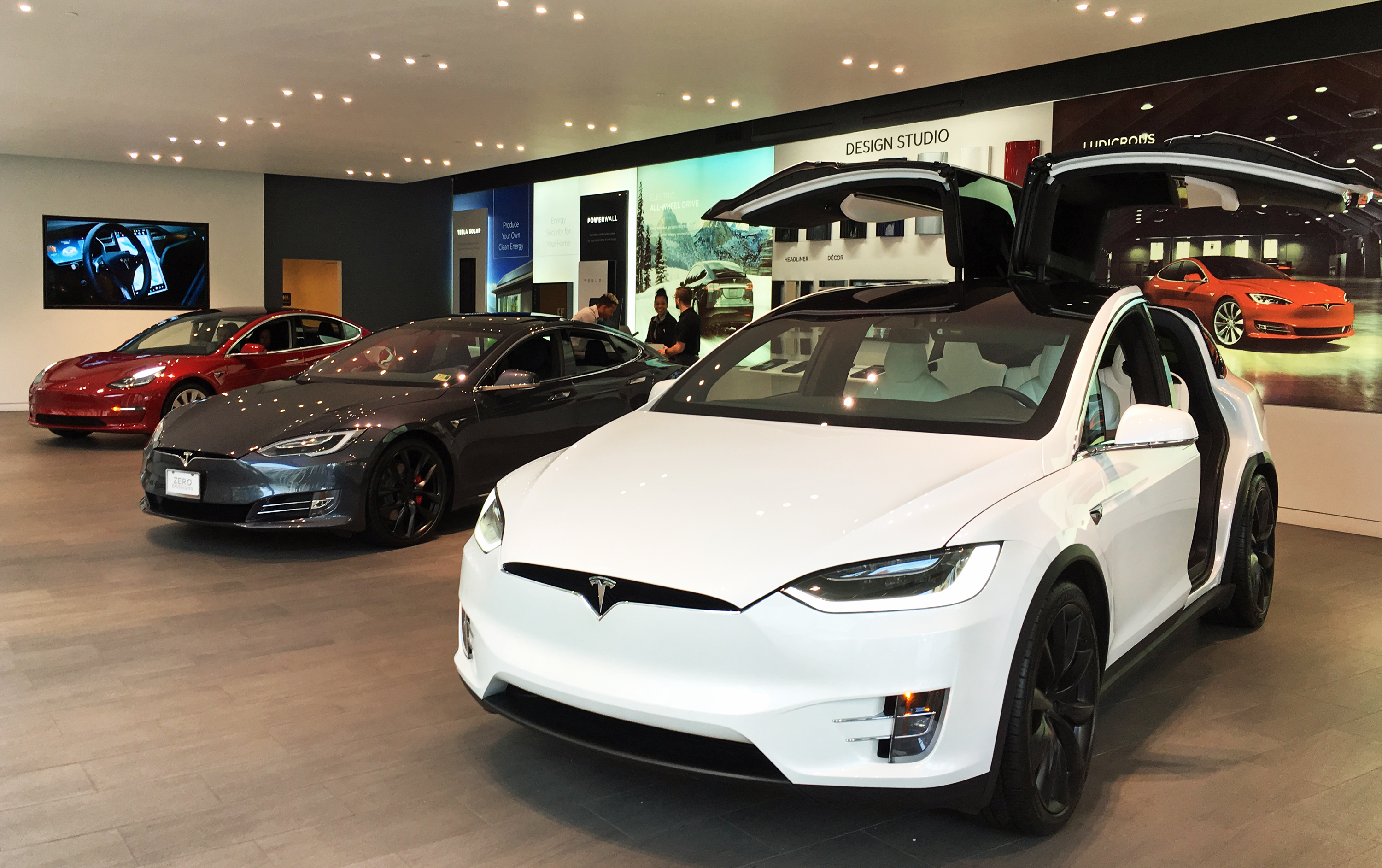 Complete linup of Tesla's electric cars exhibited at Tesla Store Washington D.C.